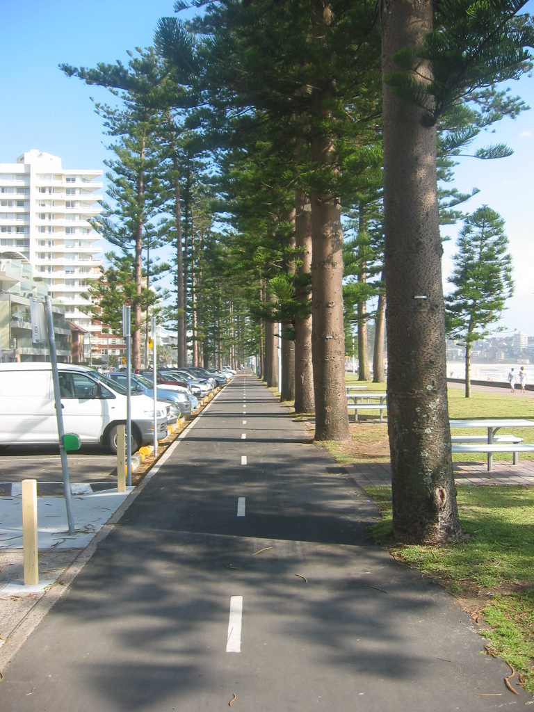 Manly Beach cyclepath. Taken by Dudesleeper.